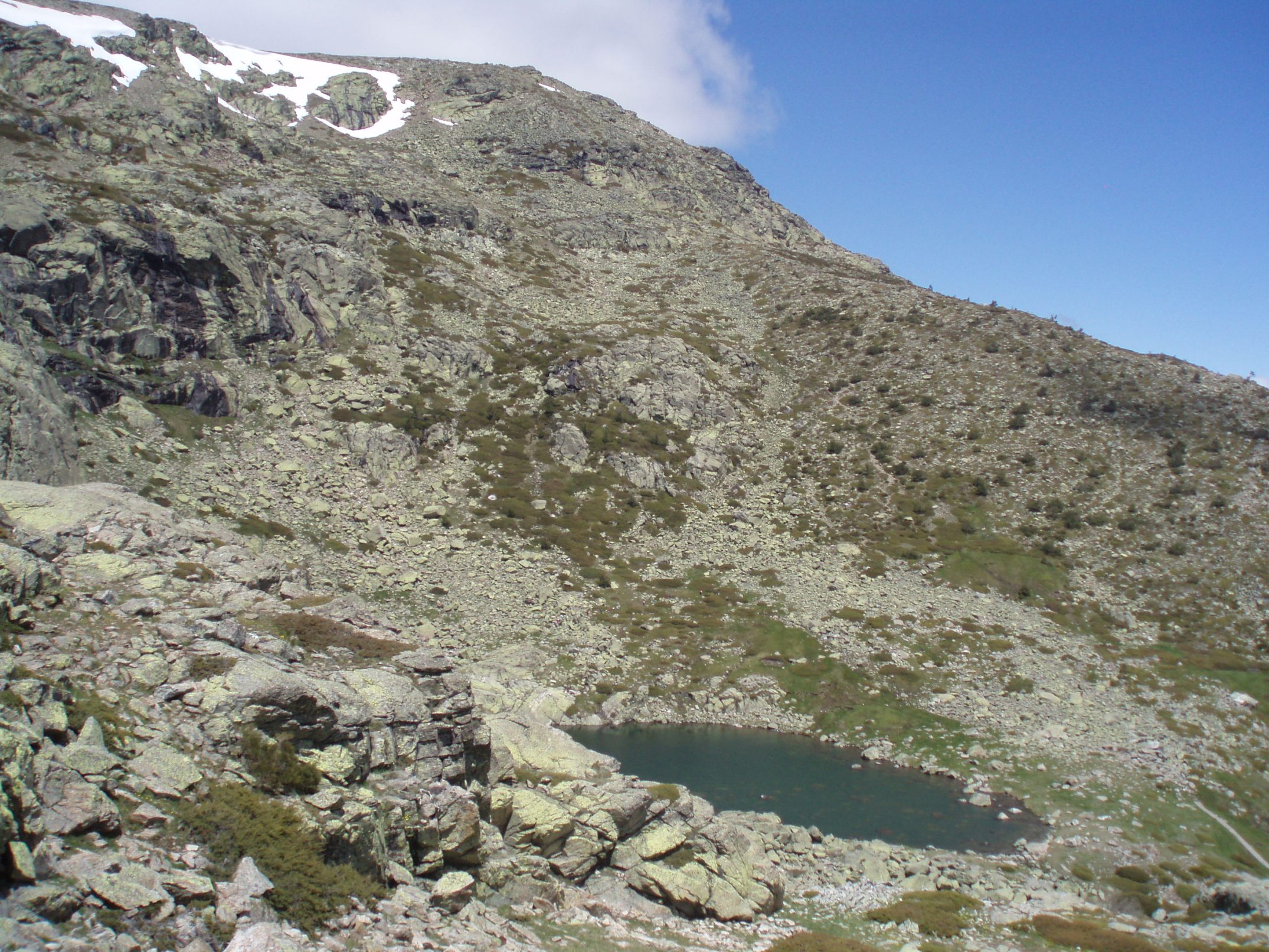 Big Lake of Peñalara and Peñalara Peak in the Sierra de Guadarrama (Community of Madrid, Spain). Image taken from the Zabala Refuge.